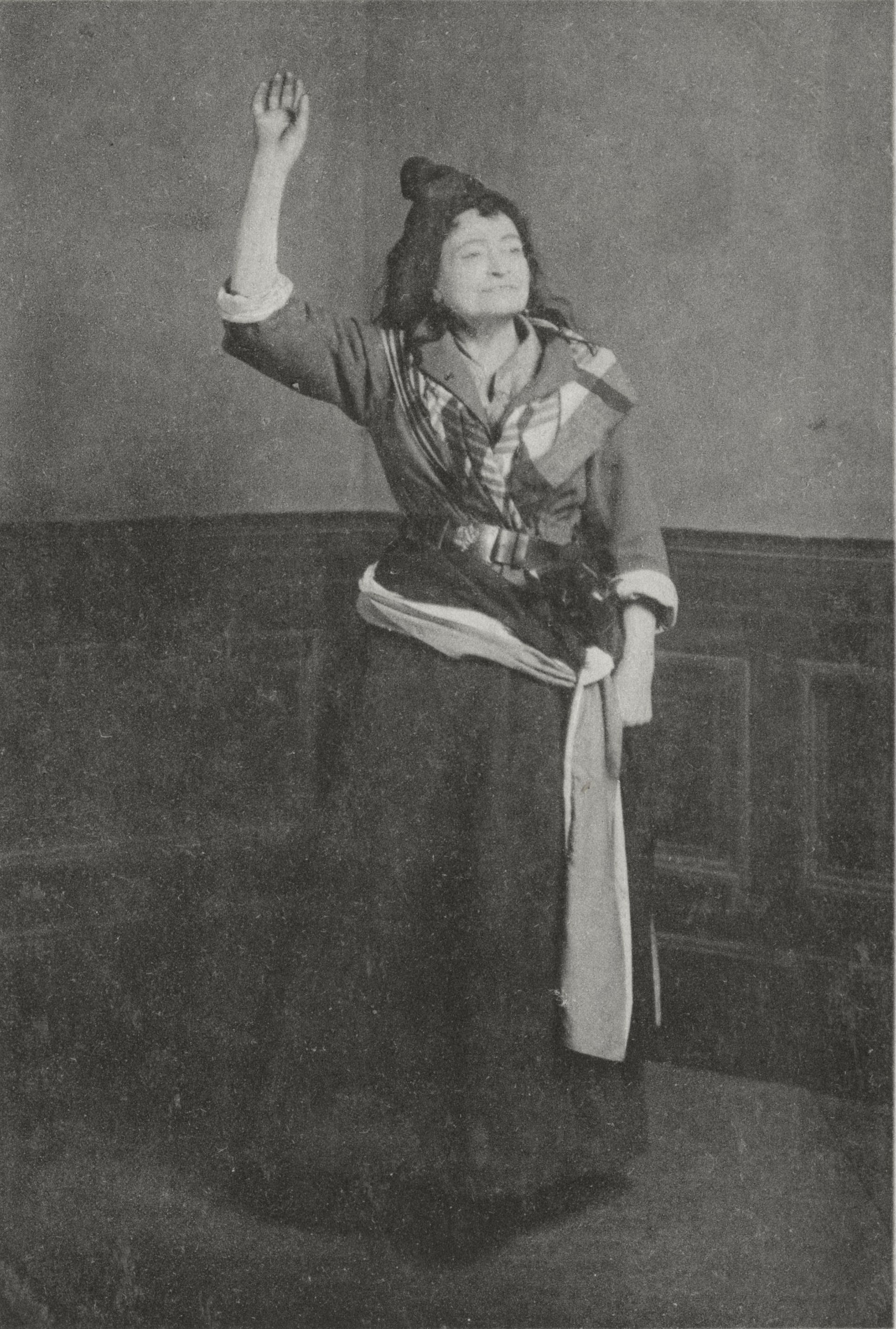 Photograph of actress Alice Marriott (1824-1900), as The Vengeance, in The Only Way. The print (in the 2nd and 3rd uploads) is dated 1902 or soon after, but her age in the photo means that the actual photograph must have been taken before 1890.